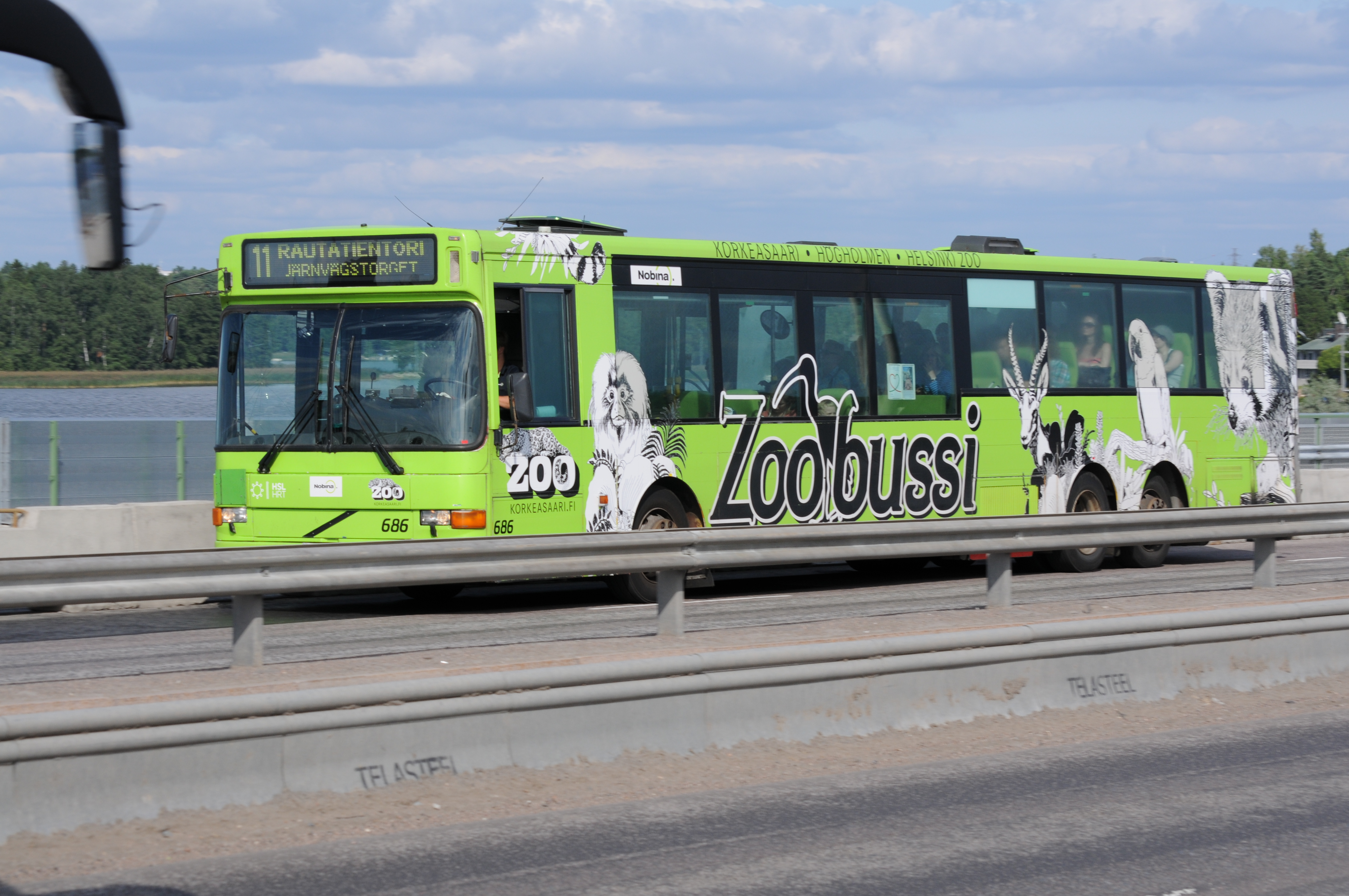 Säffle 2000NL bus (#686, reg. FIV-104) with Volvo B10BLE-70B 6x2 chassis in Helsinki, Finland. Built 2000, Nobina Finland Oy from Espoo operator.